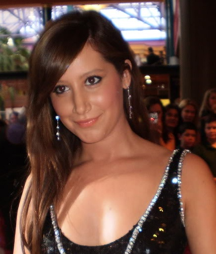 Ashley Tisdale during the High School Musical 3: Senior Year premiere in Melbourne, Australia.